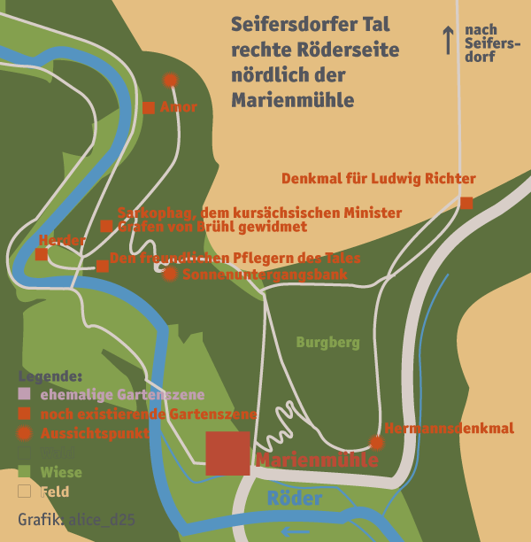 The Seifersdorfer Tal is a German landscape garden from the end of the 18th century near Dreasden, Saxony, built by Christina von Brühl.